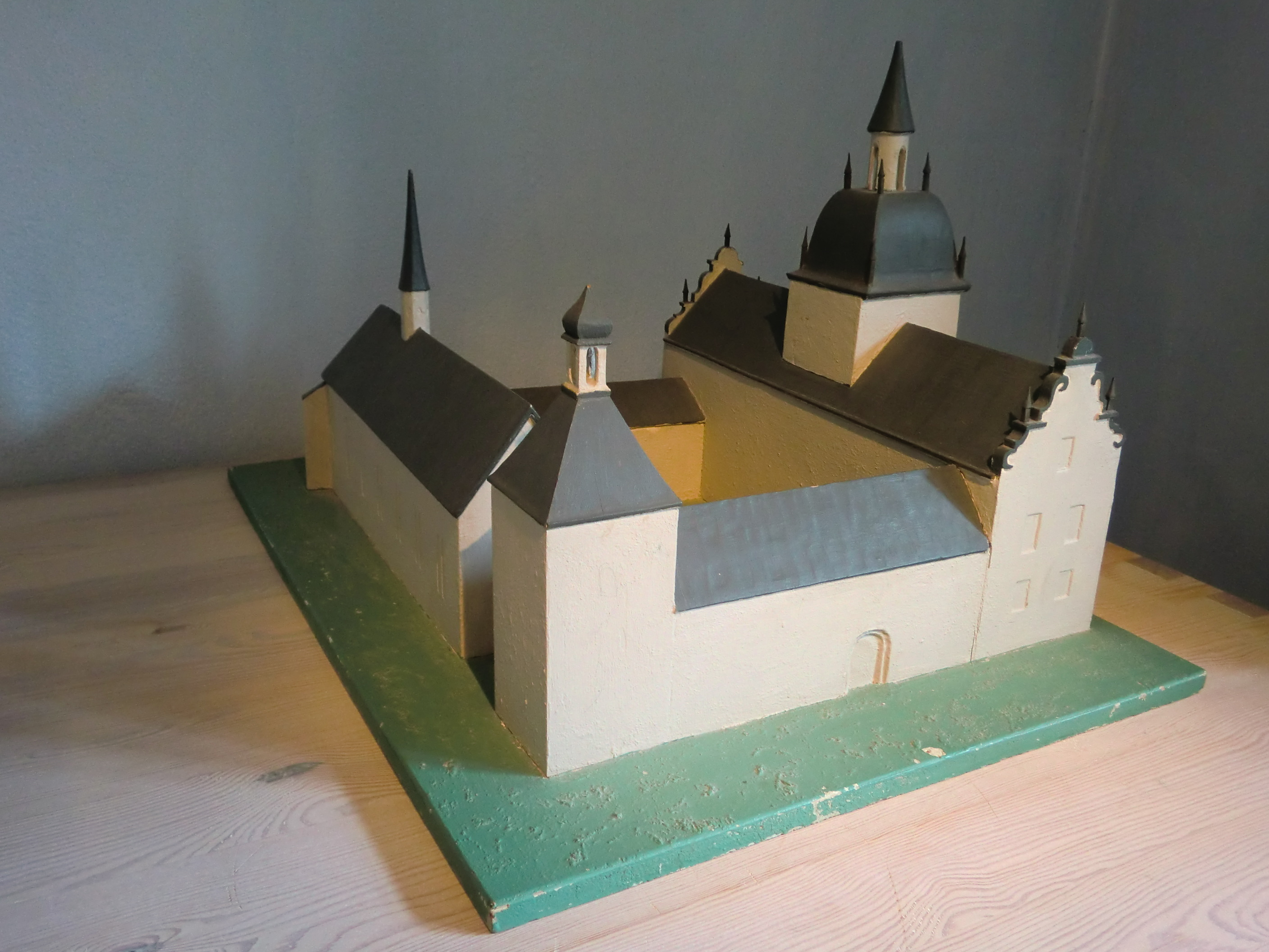 Model of the swedish castle Skaraborg, from Väsgtergötlands Museum, Skara.